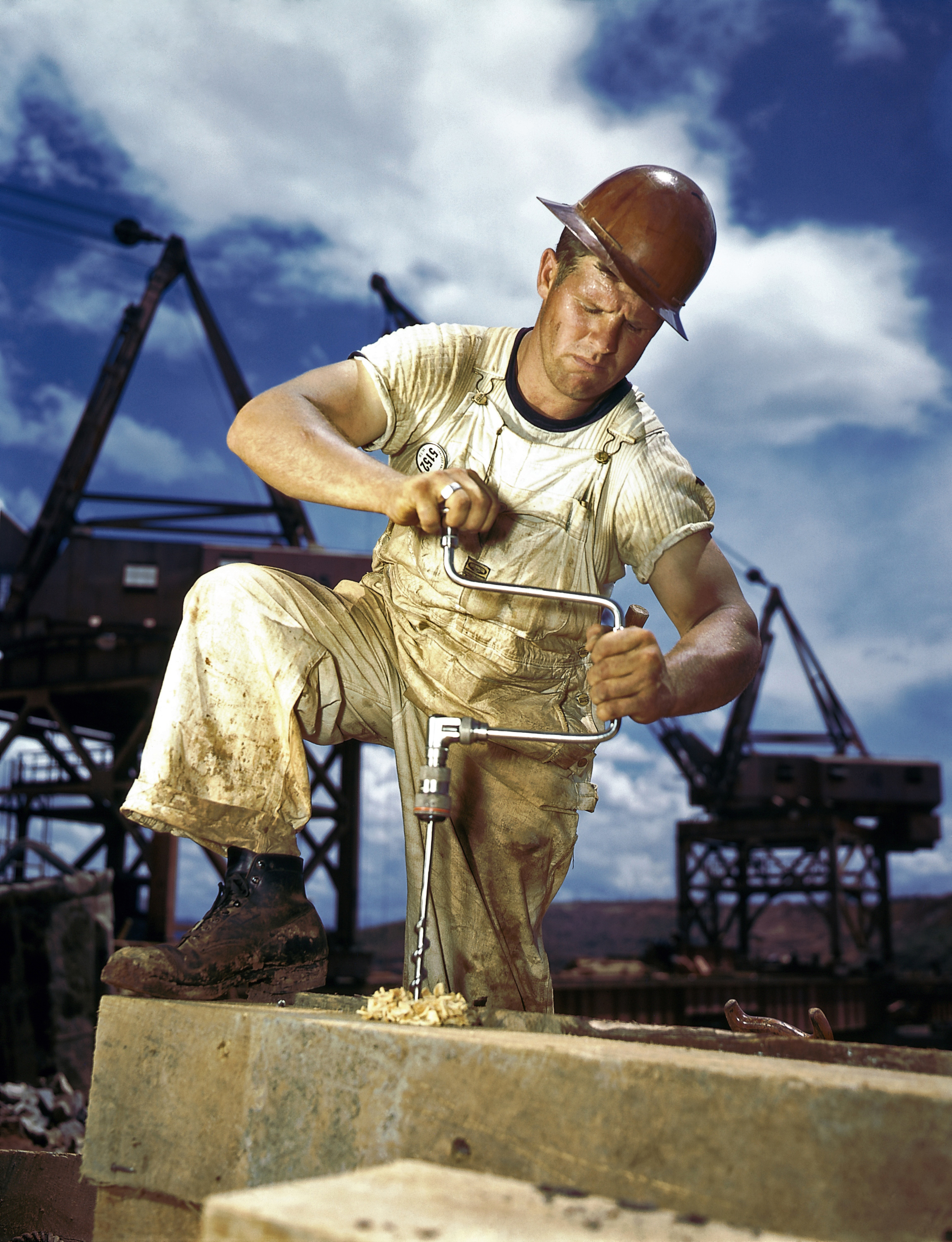 1942 photograph of carpenter at work on Douglas Dam, Tennessee (built by the Tennessee Valley Authority). Encyclopedic both as a document of carpentry during that era and as a historic example of early color photography. Supersaturation was popular in the United States during that era; a fine example of the esthetics of its place and time.